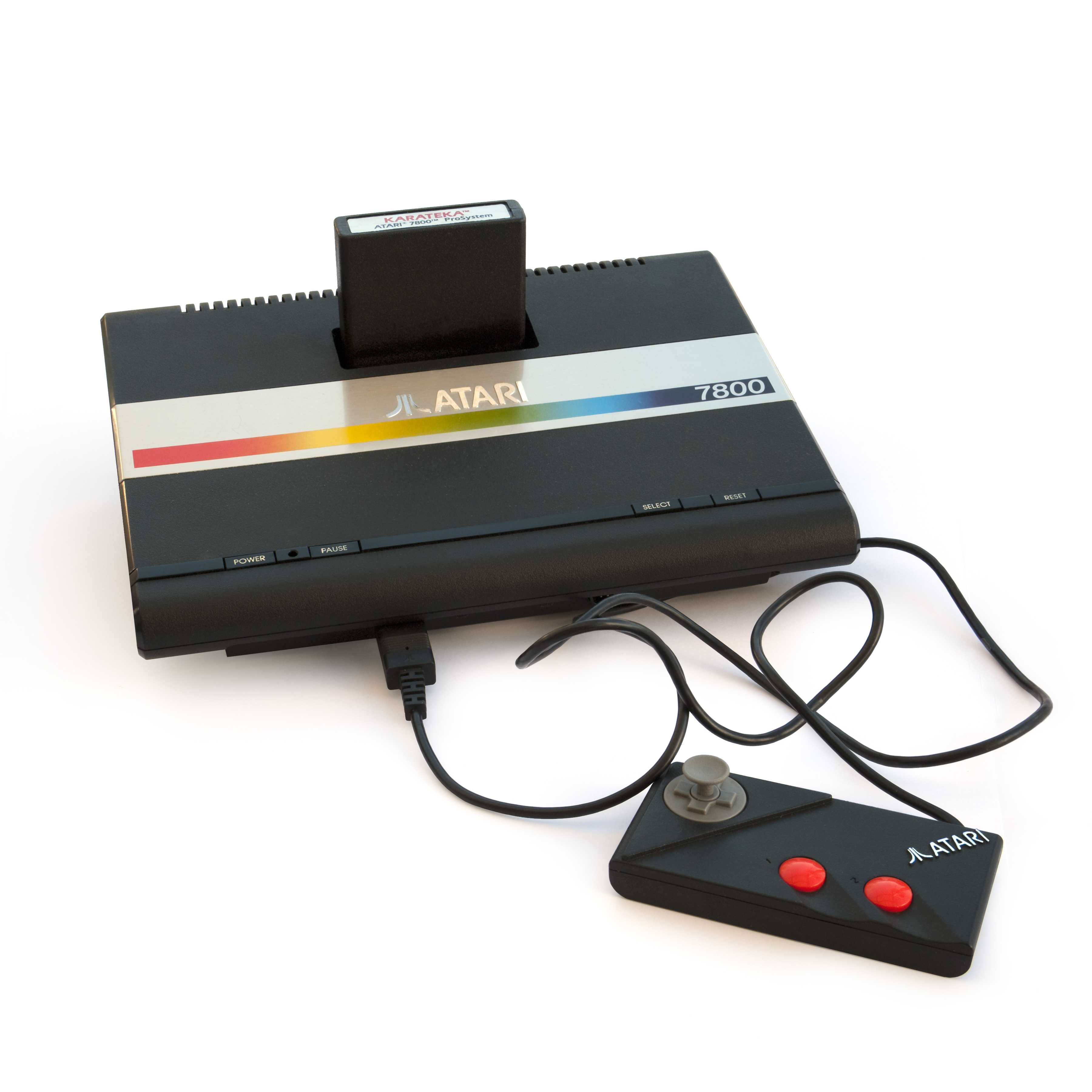 Atari 7800 with cartridge and game pad